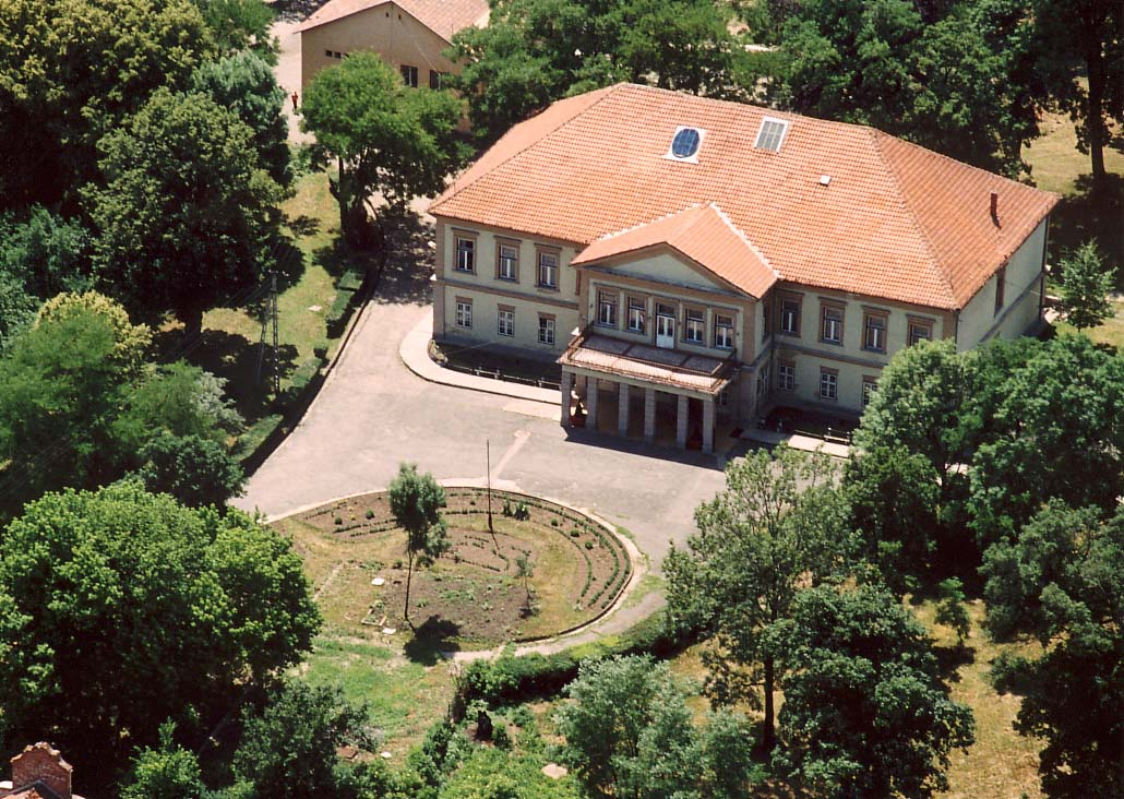 Palace - Kurityán - Hungary - Europe (Pallavicini Mansion)